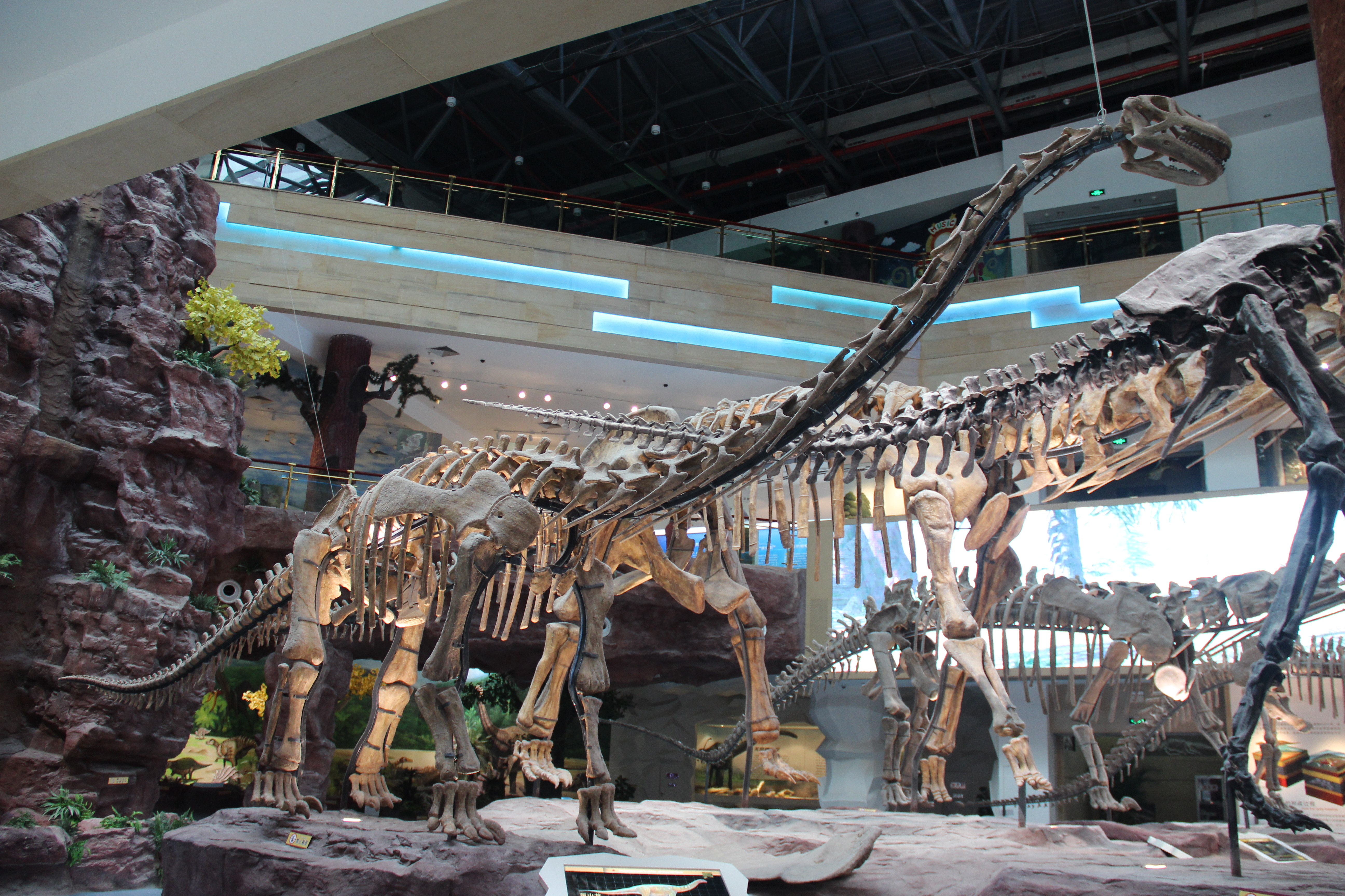 Anhui Geological Museum, Hefei. Complete indexed photo collection at .